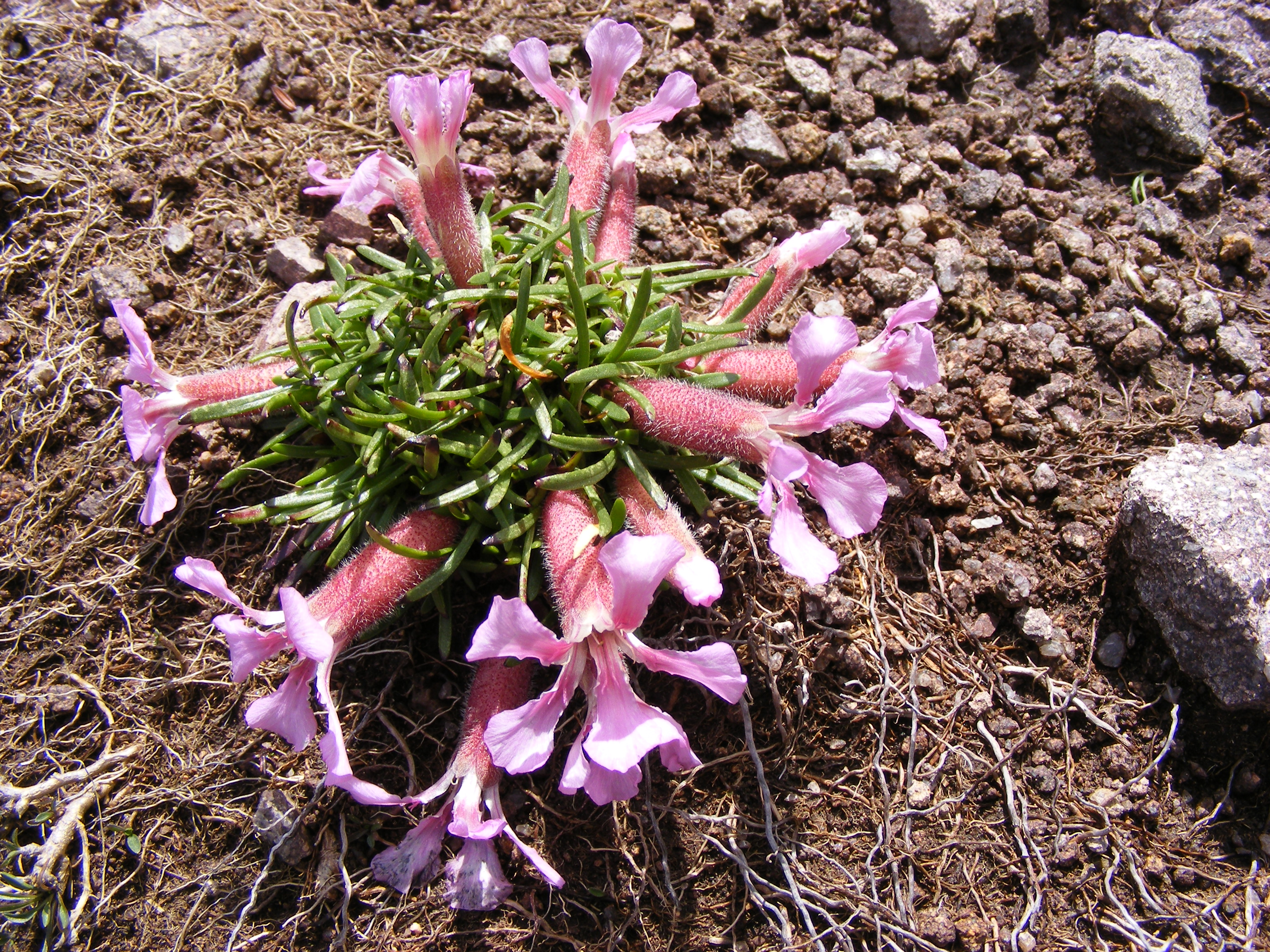 This photo shows Saponaria pumila